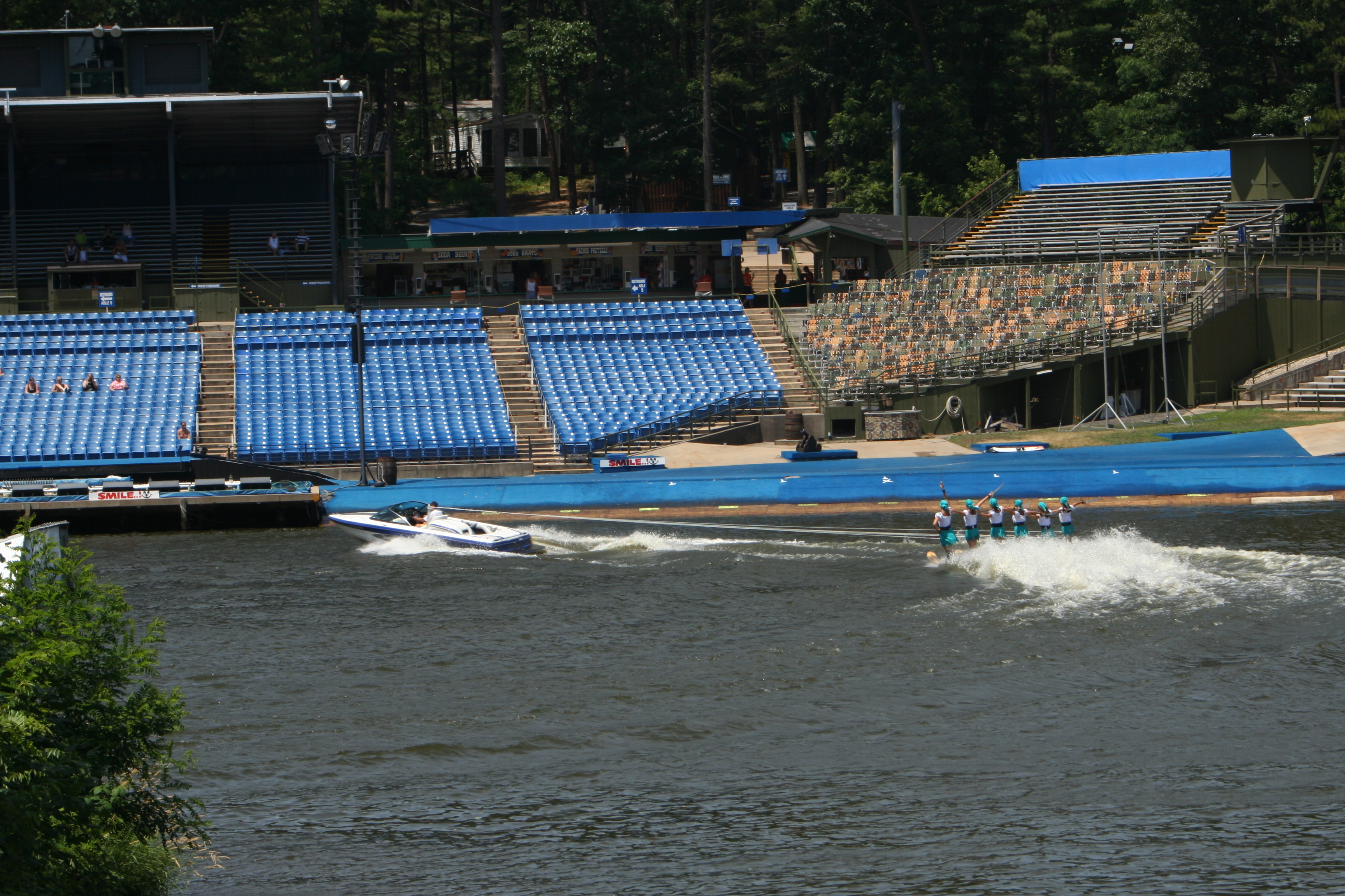 The grandstands for Tommy Bartlett's Thrill Show during a show on a very hot day.